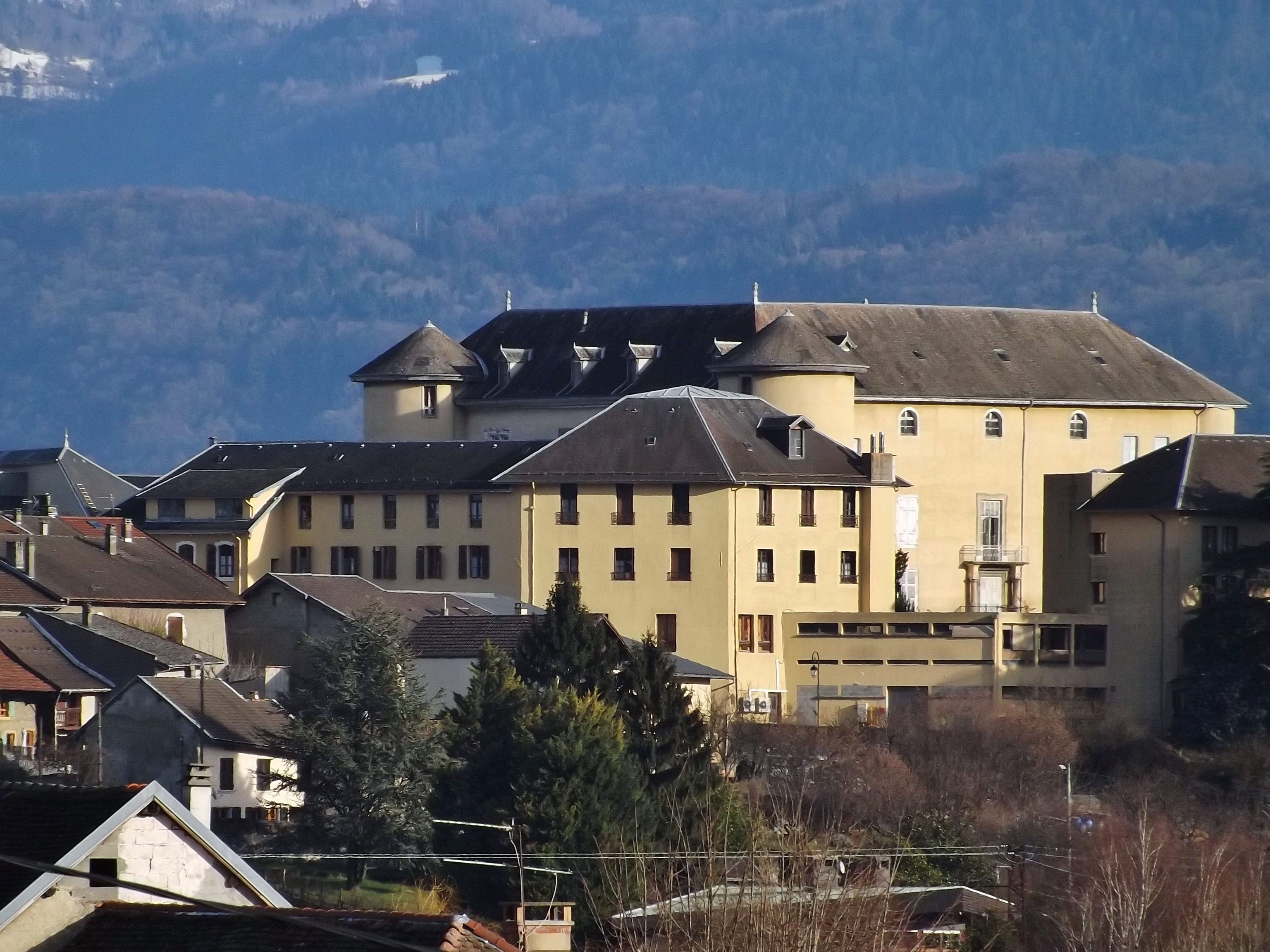 Sight, from the lac Saint-André lake, of the château des Marches castle, near Chambéry in Savoie, France.